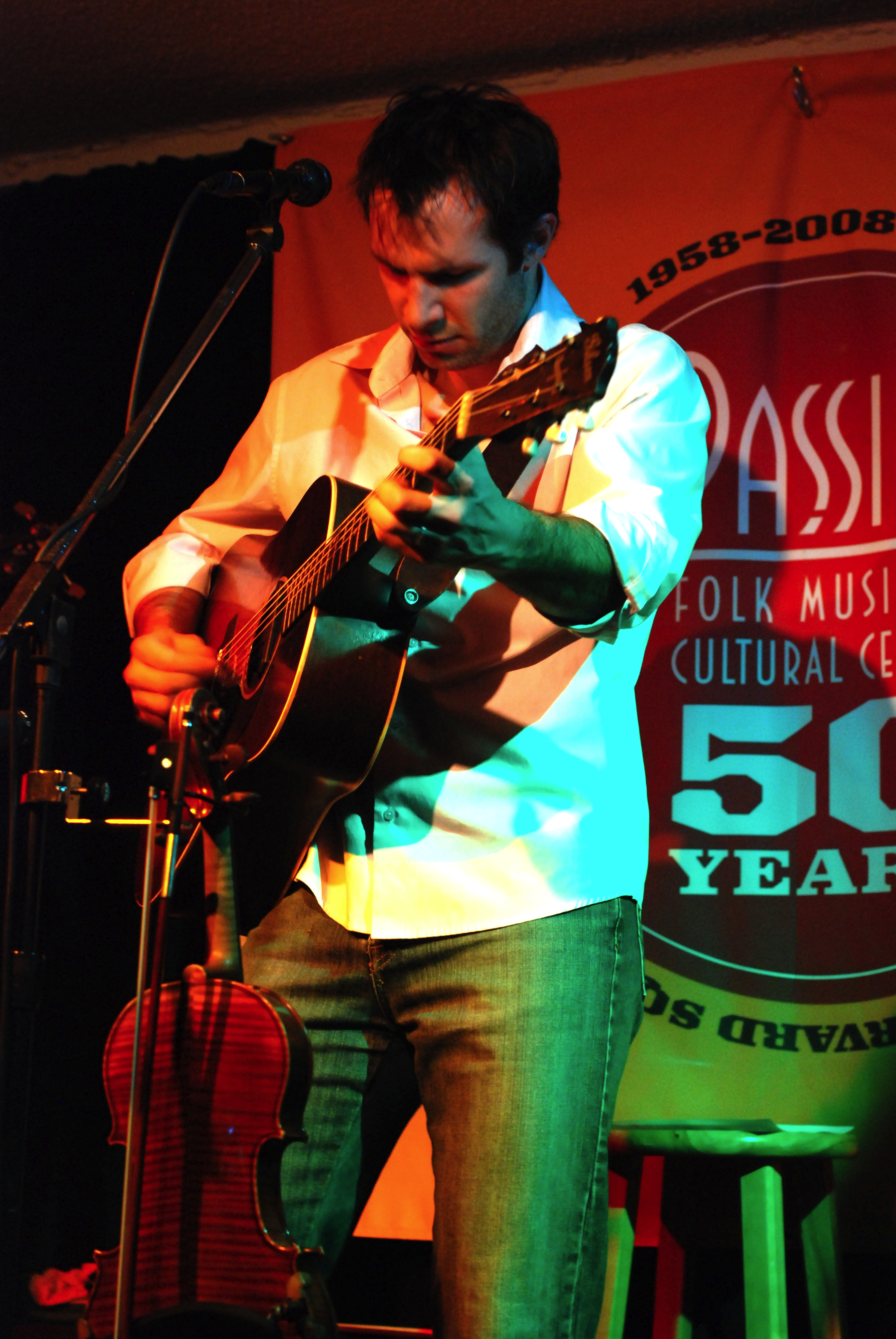 Jake Armerding at Club Passim in Cambridge, Massachusetts USA on March 15, 2009.